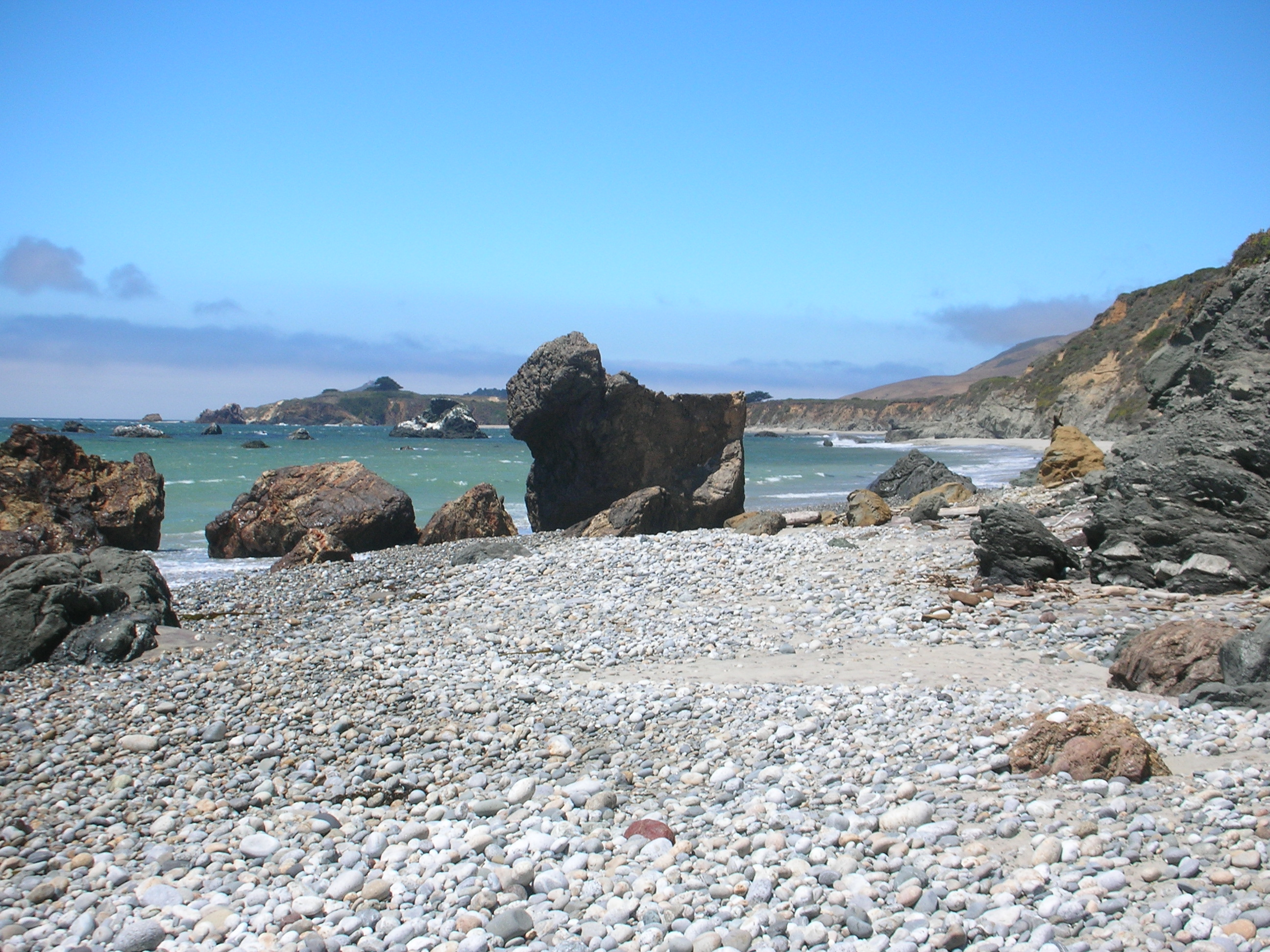 A beach in Andrew Molera State Park, a Big Sur, California, USA